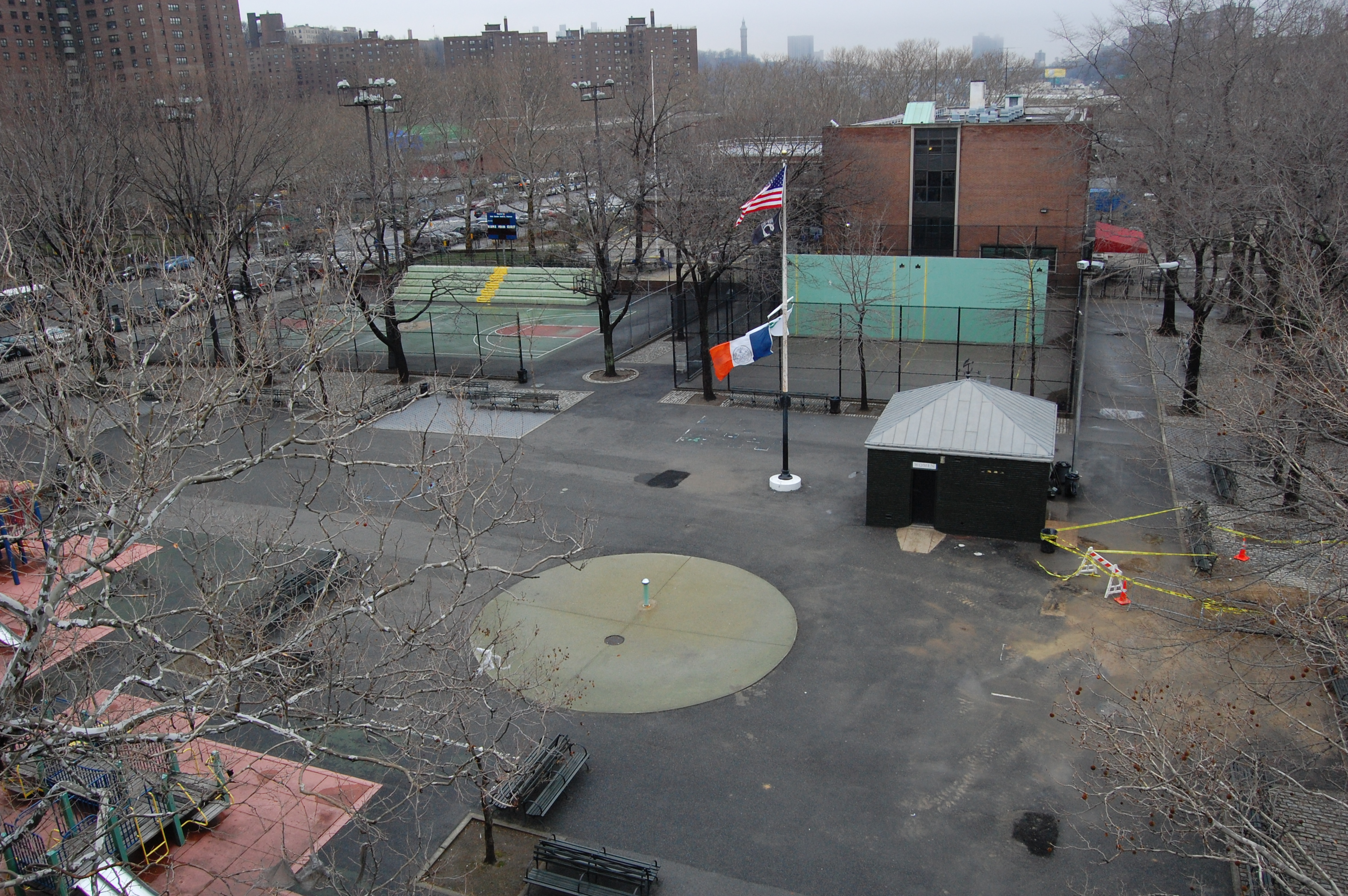 This photo is of Wikipedia Takes Manhattan location code 50, Rucker Park.